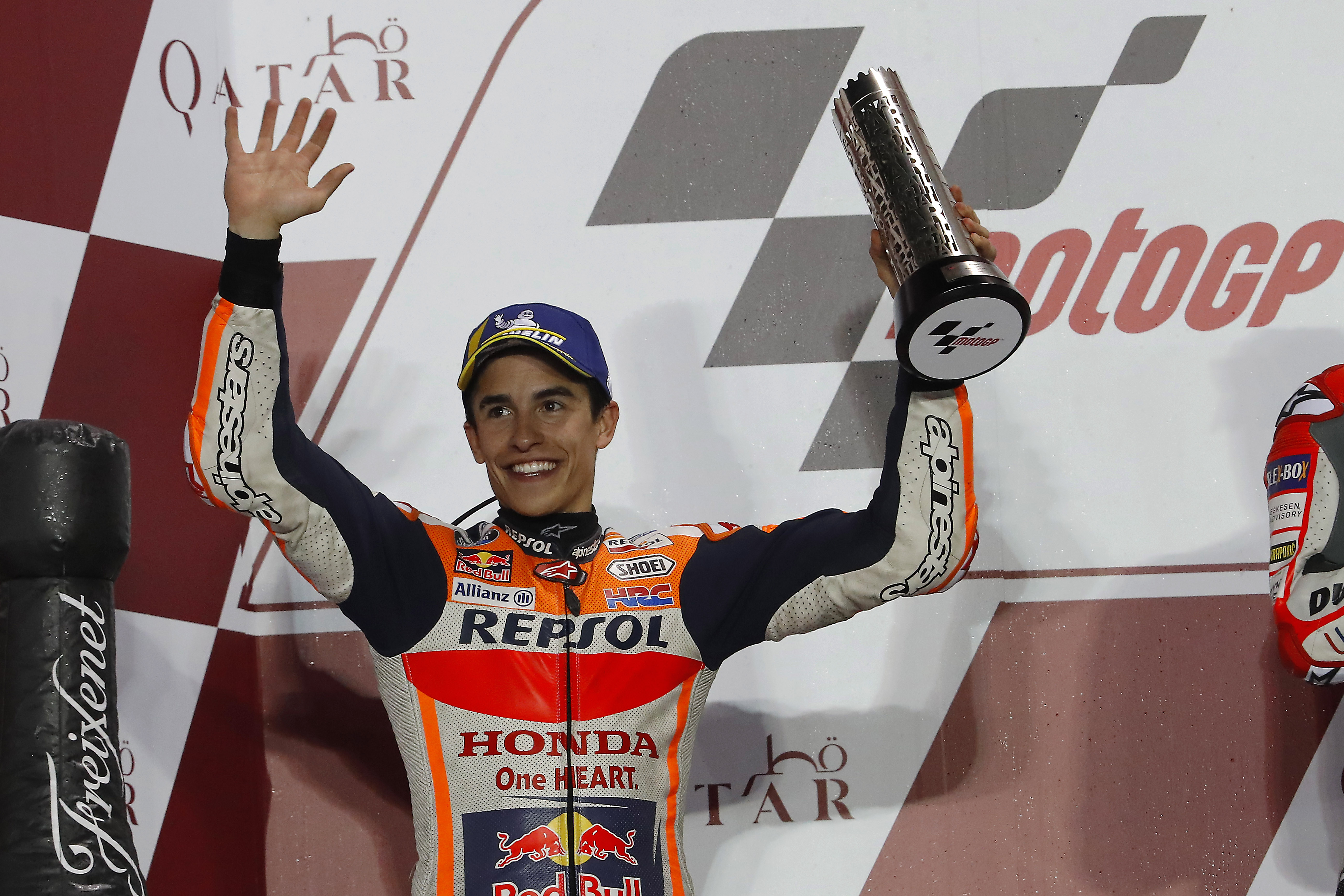 Marc Márquez, celebrating on the podium after finishing in second place at the 2018 Qatar Grand Prix.